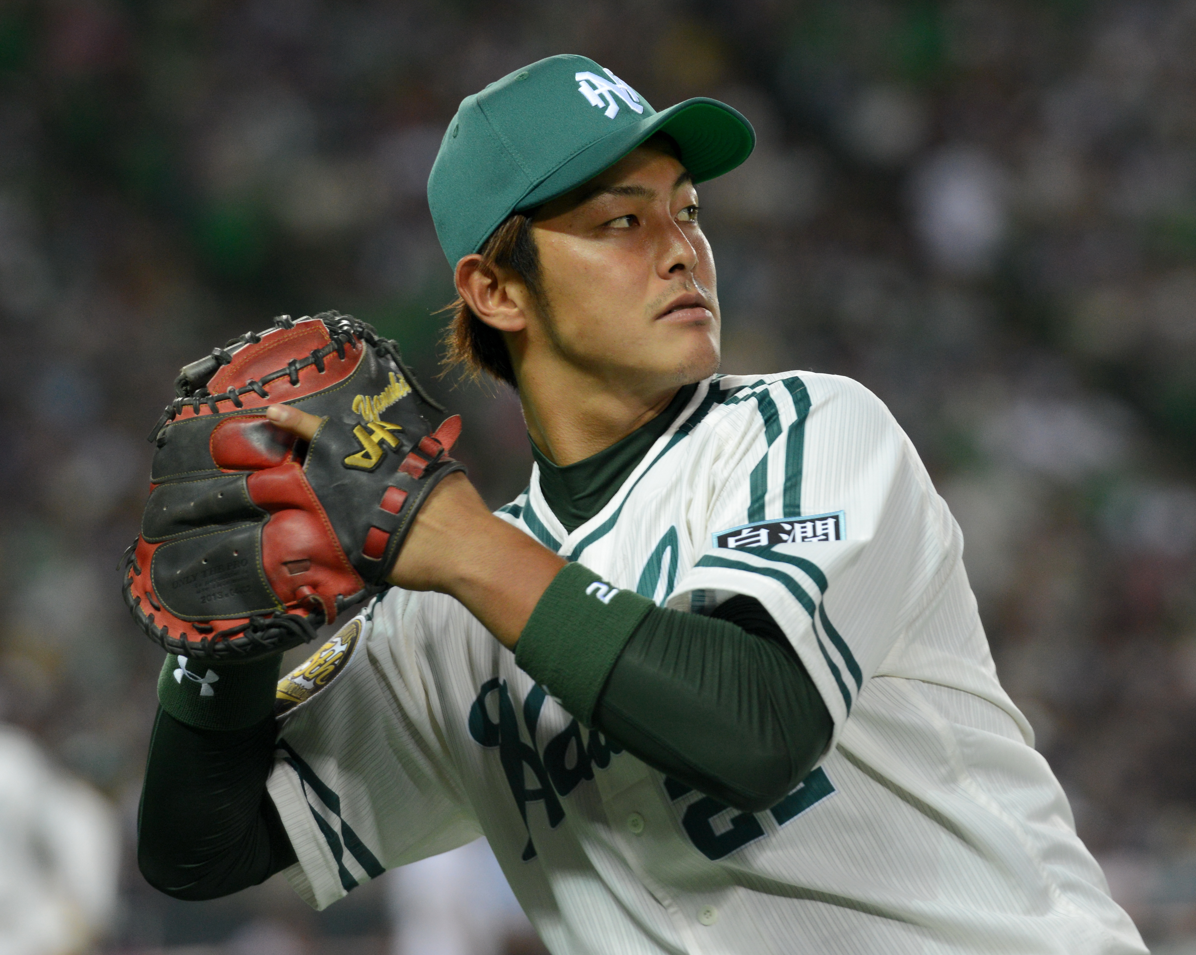 Ayatsugu Yamashita, catcher of the Fukuoka SoftBank Hawks, at Fukuoka Dome.